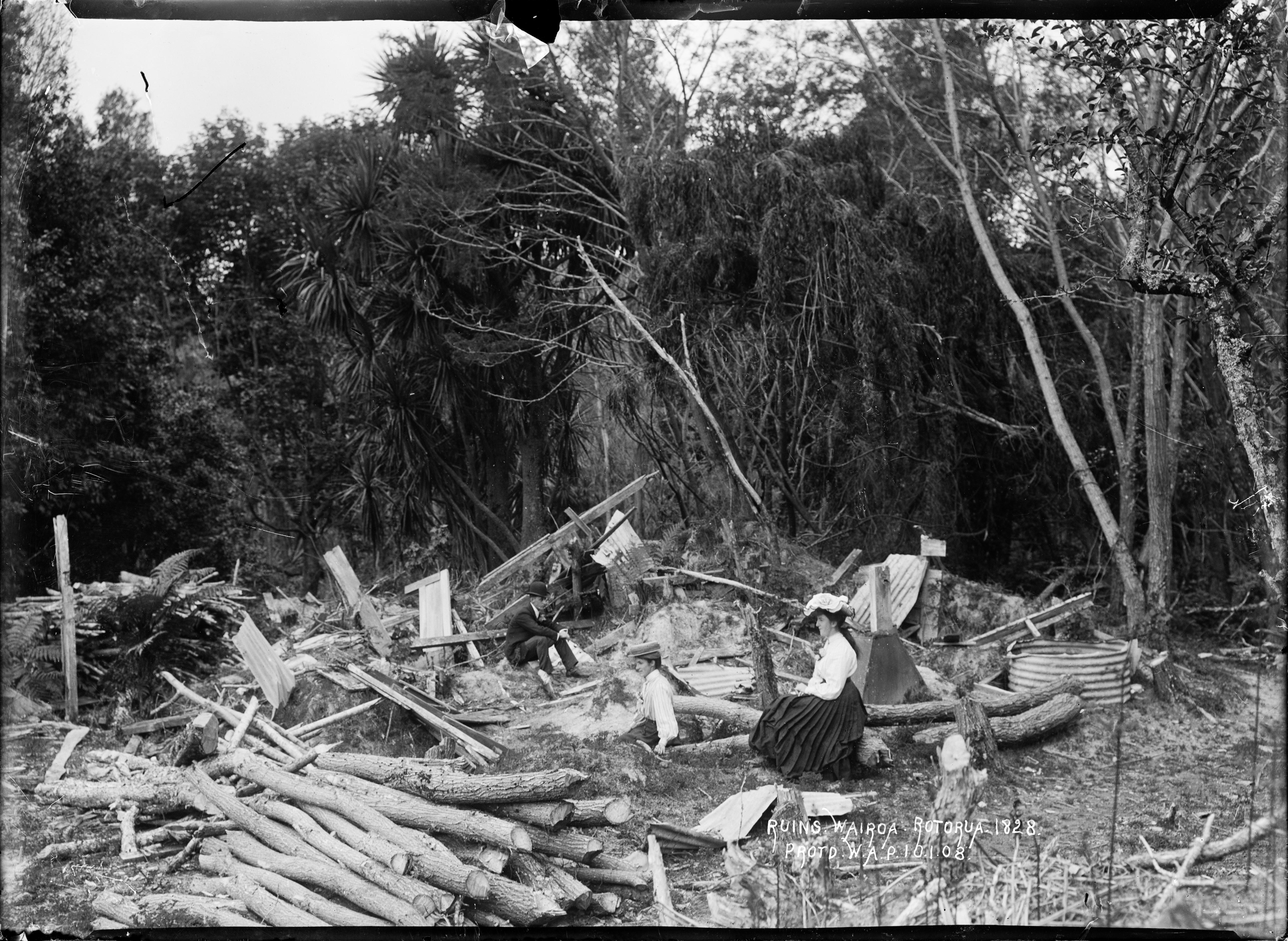 View of a man and two women sitting amongst timber, corrugated iron and logs at the site of a demolished buildings, against a backdrop of native bush. The remains of a watertank can be seen. Photograph taken by William A Price on 10 Jan 1908. Inscriptions: Inscribed - Photographer's title on negative -bottom right: Ruins. Wairoa. Rotorua, 1828. Protd. W.A.P. 10.1.08. Quantity: 1 b&w original negative(s). Physical Description: Dry plate glass negative 4.75 x 6.5 inches Ruins at Te Wairoa, near Rotorua. Price, William Archer, 1866-1948 :Collection of post card negatives. Ref: 1/2-001453-G. Alexander Turnbull Library, Wellington, New Zealand.